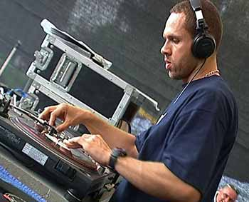 Scratching 2000 DJ Stylewarz live